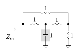 Circuit to demonstrate the extra element theorem. Made with Klunky.